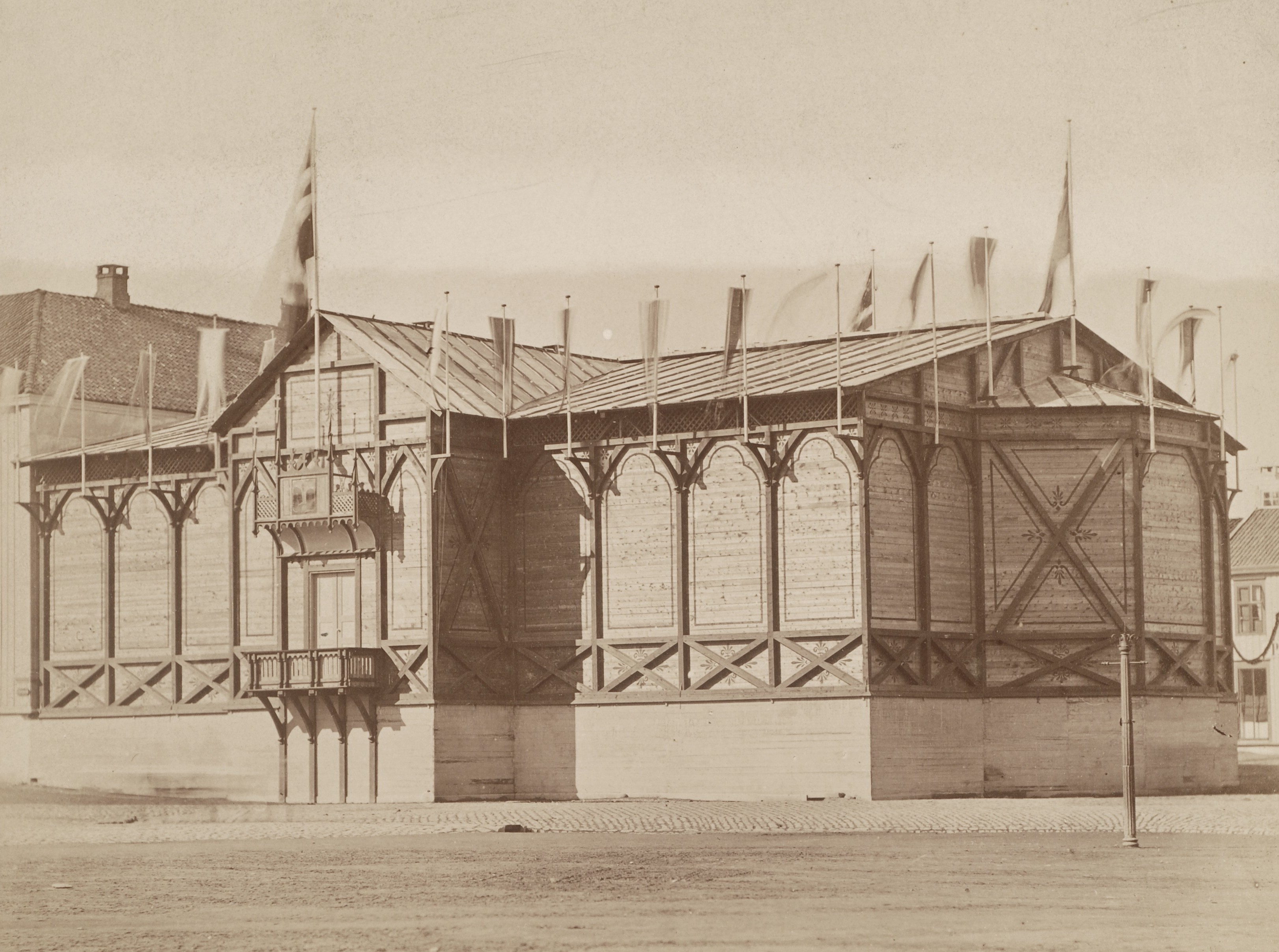 A temporary pavilion for dance and entertaining, erected in Trondheim, Norway, for the coronation banquets in 1873, in connection with the coronation of king Oscar II. The palais "Harmonien" in the left part of the photo